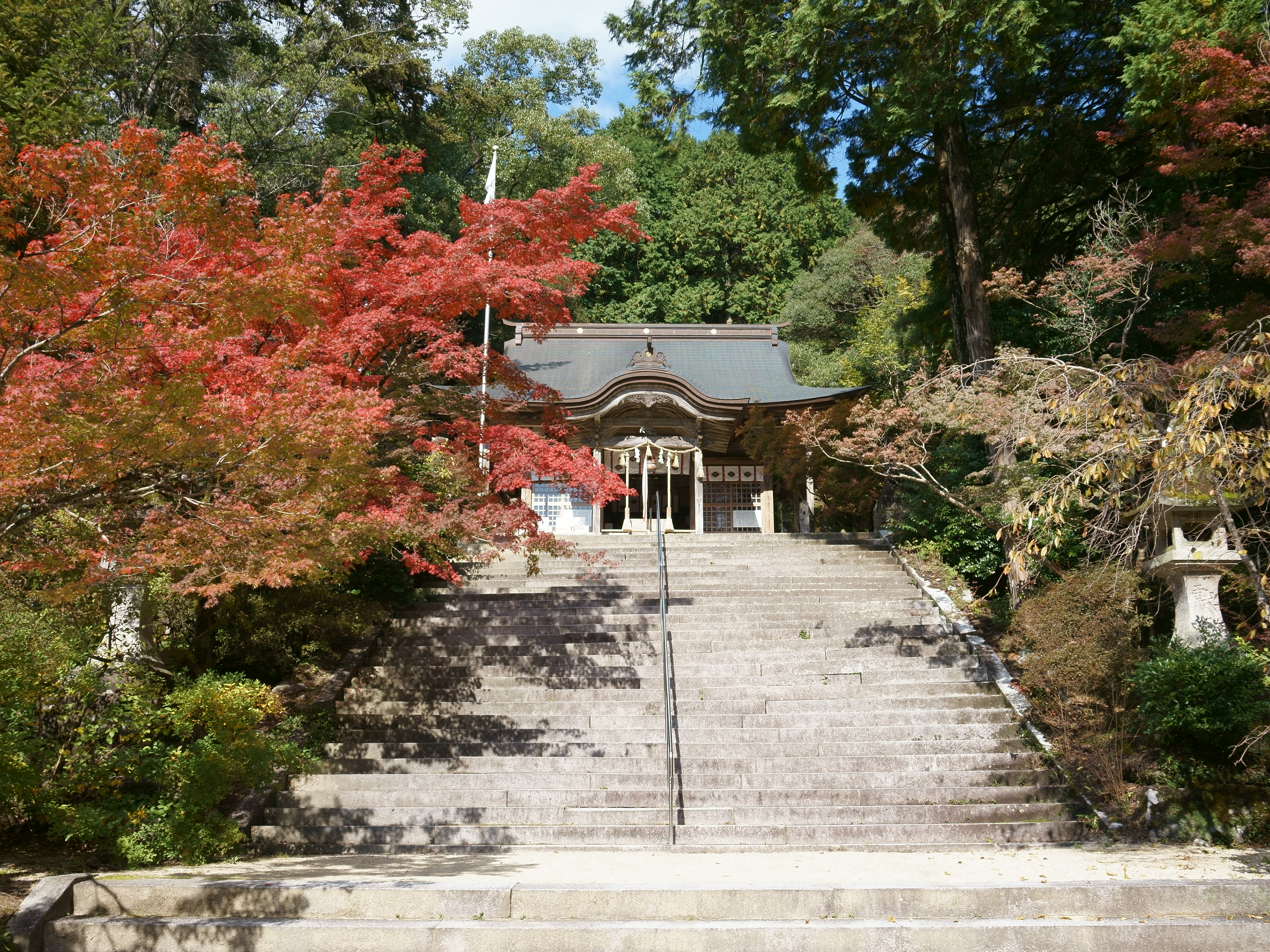 A hall of worship of Niiyama Shrine, in Kanzaki city, Saga prefecture.